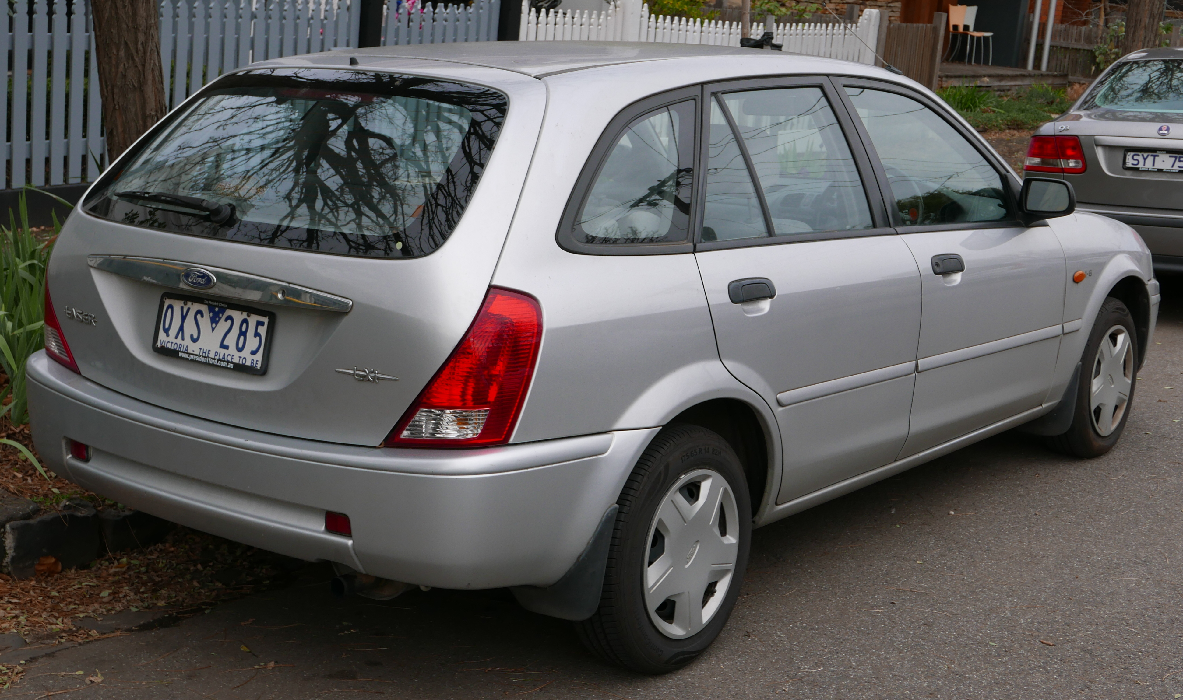 2001 Ford Laser (KQ) LXi hatchback. Photographed in Fitzroy North, Victoria, Australia. Vehicle registration enquiry resultsJurisdictionVictoriaRegistrationQXS285Chassis codeJC0AAASHPL1P43856Engine codeZM504163Compliance date2001-05Year of manufacture2001